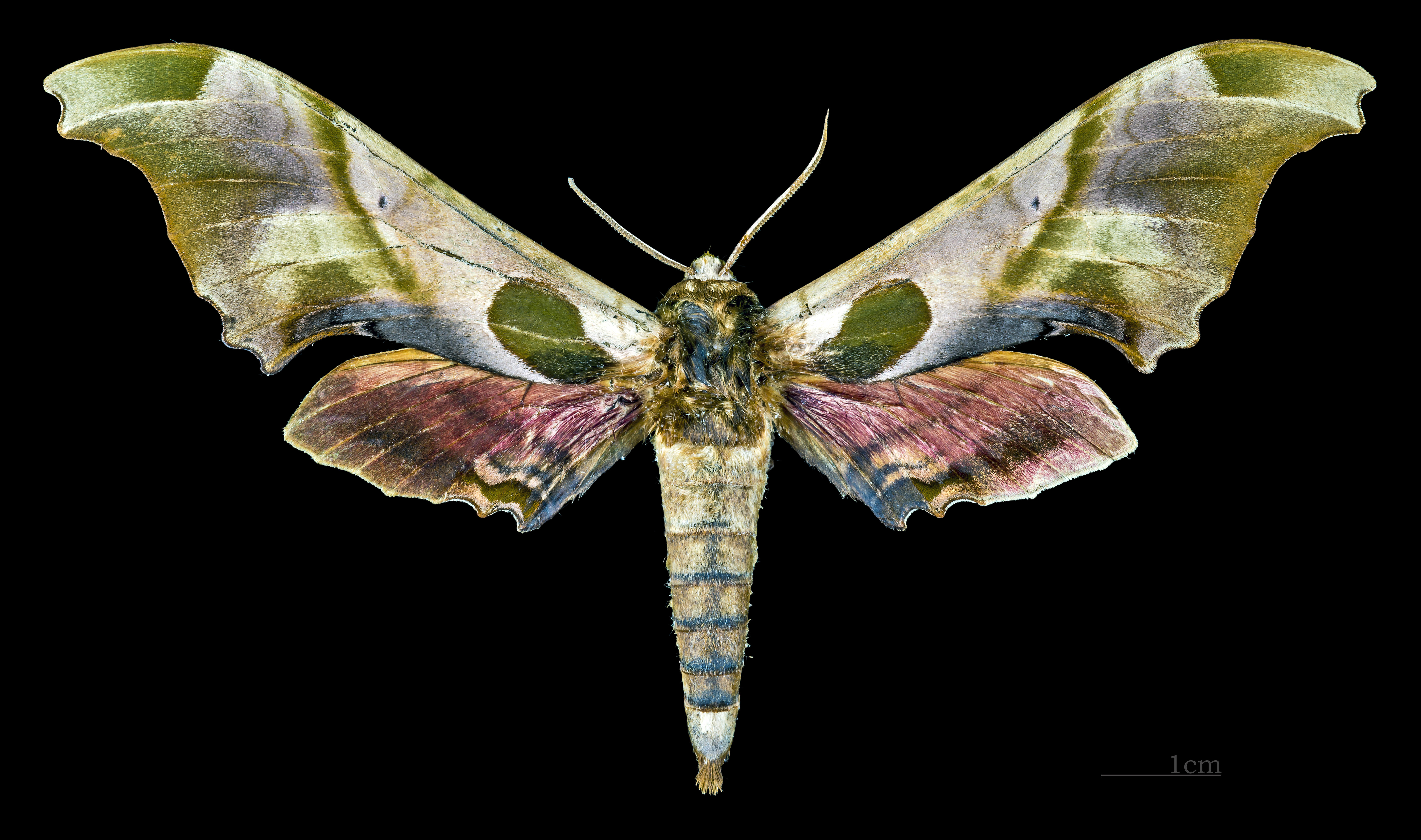 Adhemarius globifer - Dorsal side Collection of the Mathematician Laurent Schwartz